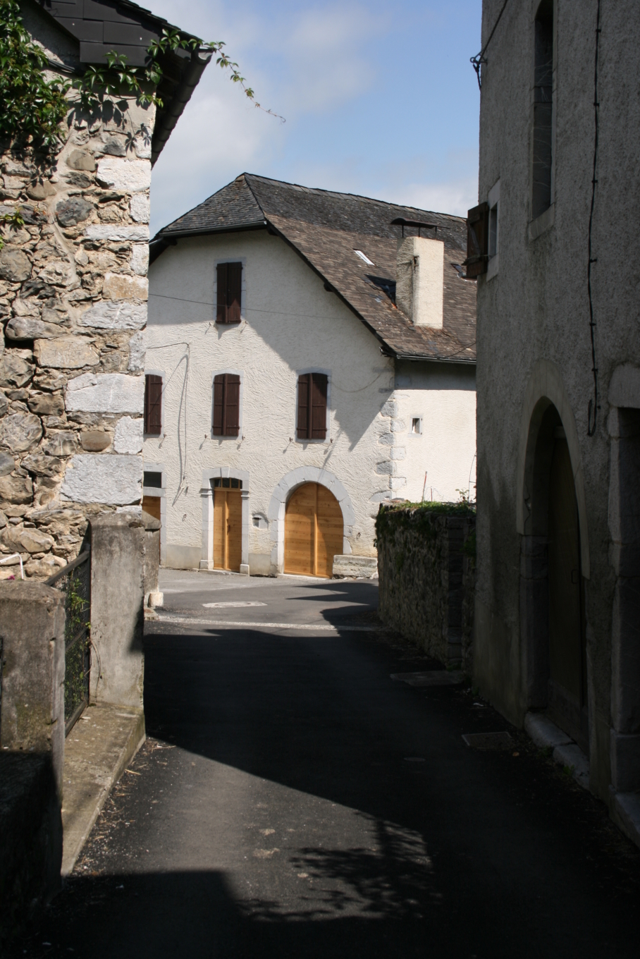 Accous, Aspe-valley, France: Street